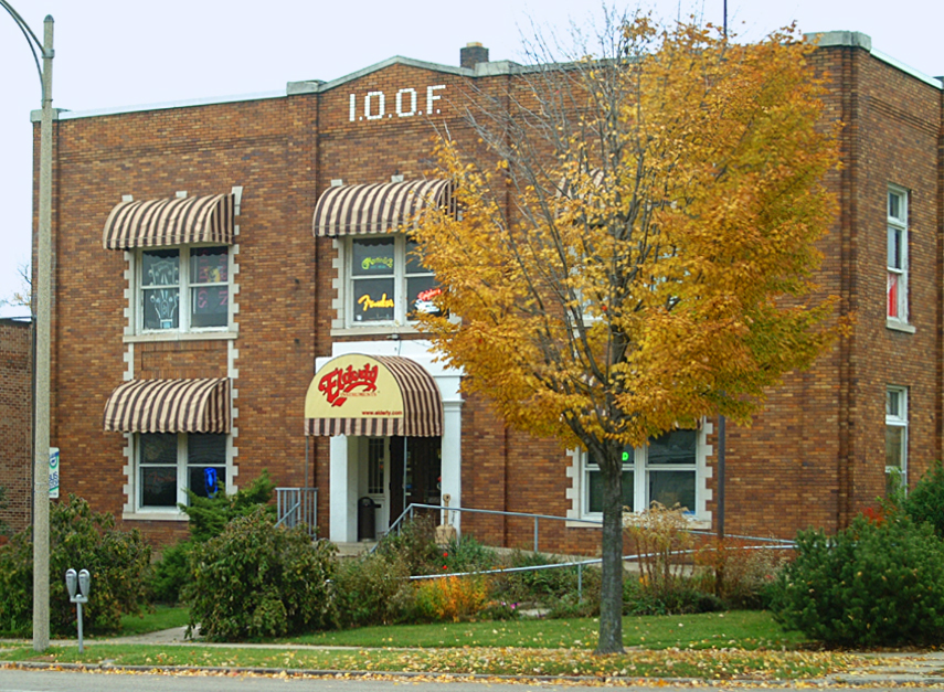 The exterior of Elderly Instruments in Lansing, Michigan